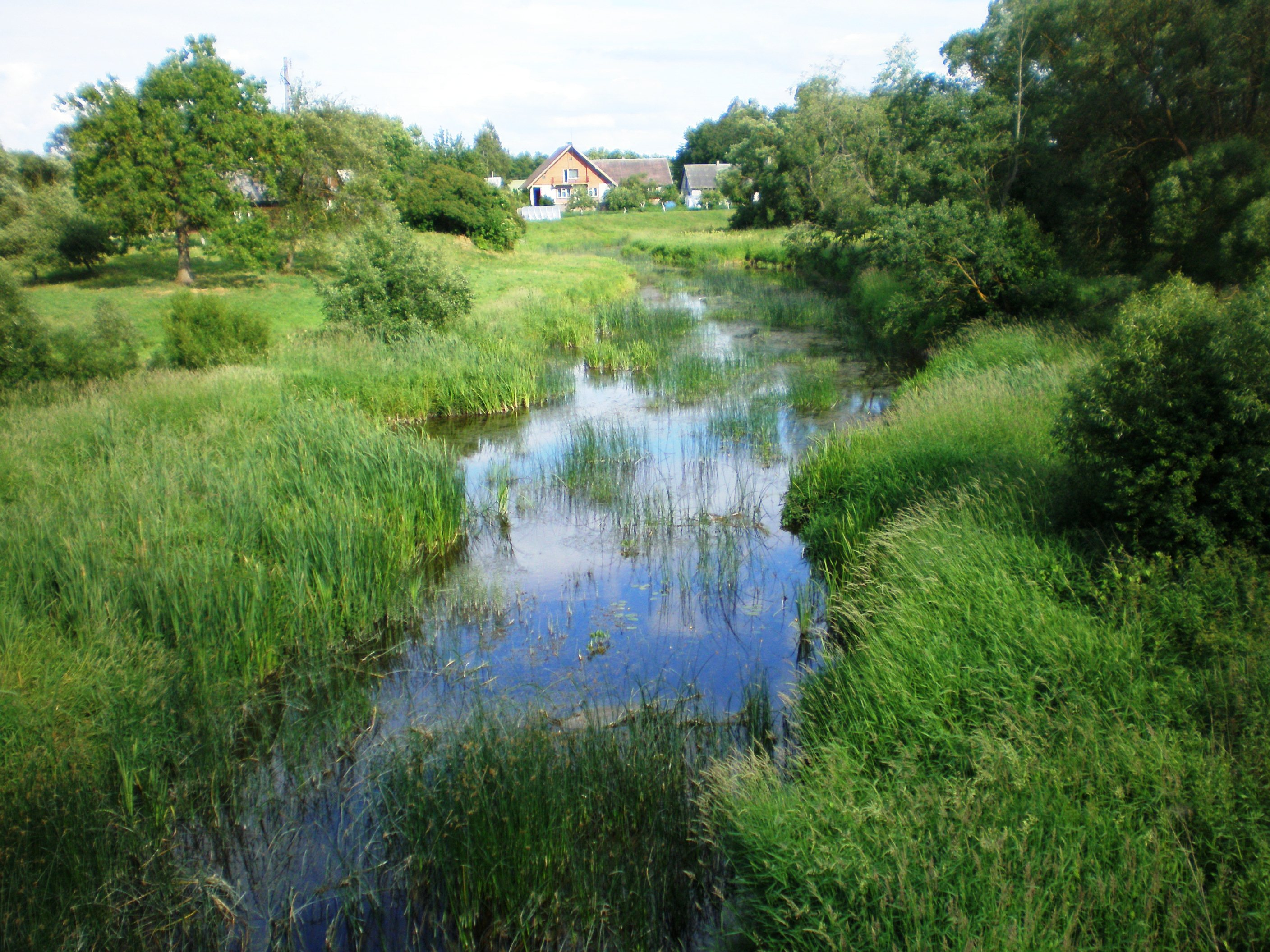 Pyvesa river near Papyvesiai